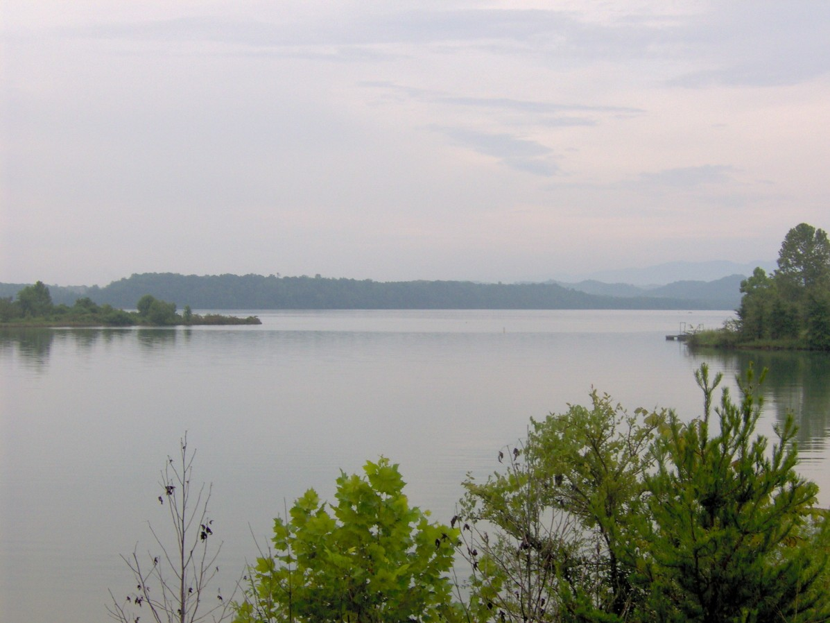 The site of the former Cherokee village of Toqua at the confluence of Toqua Creek and the Little Tennessee River in Monroe County, Tennessee, located in the southeastern United States. Toqua was located out toward the right, and Tomotely was located toward the left.